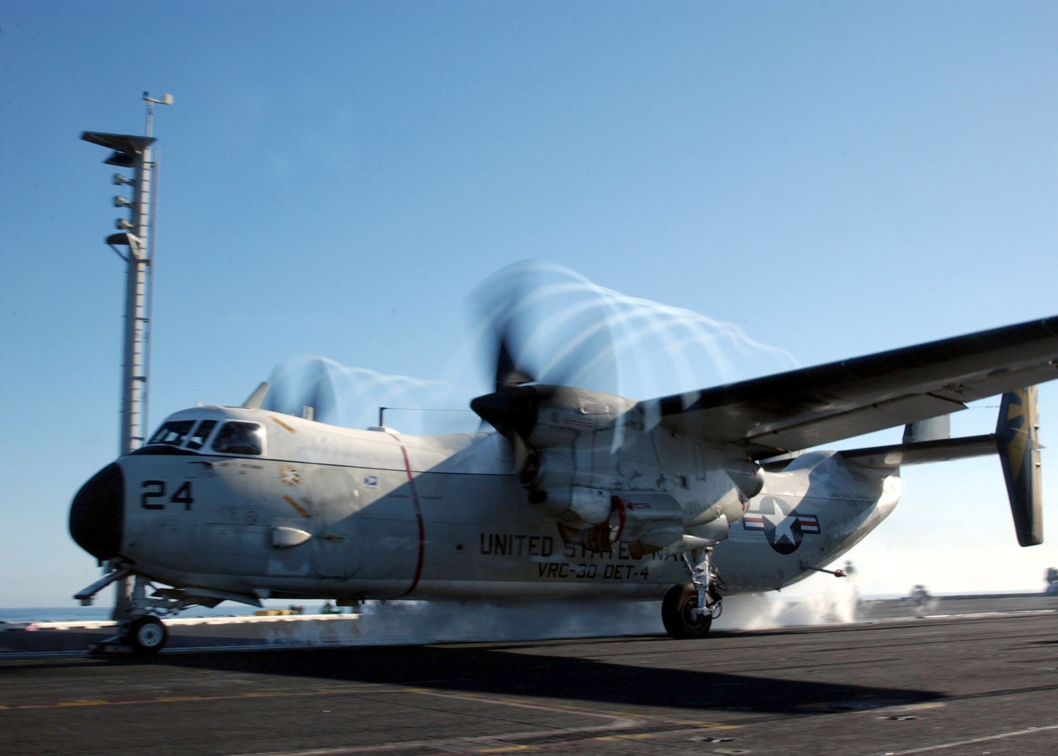 Pacific Ocean (Jan. 29, 2004) – A C-2 Grayhound assigned to the "Providers" of Fleet Logistics Support Squadron Three Zero (VRC-30) launches from one of four steam powered catapults on the flight deck aboard USS Carl Vinson (CVN 70). The Bremerton, Washington based nuclear powered aircraft carrier is currently underway for the first time since returning from an eight and half month western pacific deployment. Carl Vinson is conducting training with Carrier Air Wing Nine (CVW-9) and units of the Carl Vinson Carrier Strike Group (CSG). U.S. Navy photo by Photographer's Mate Third Class Dustin Howell. (RELEASED)